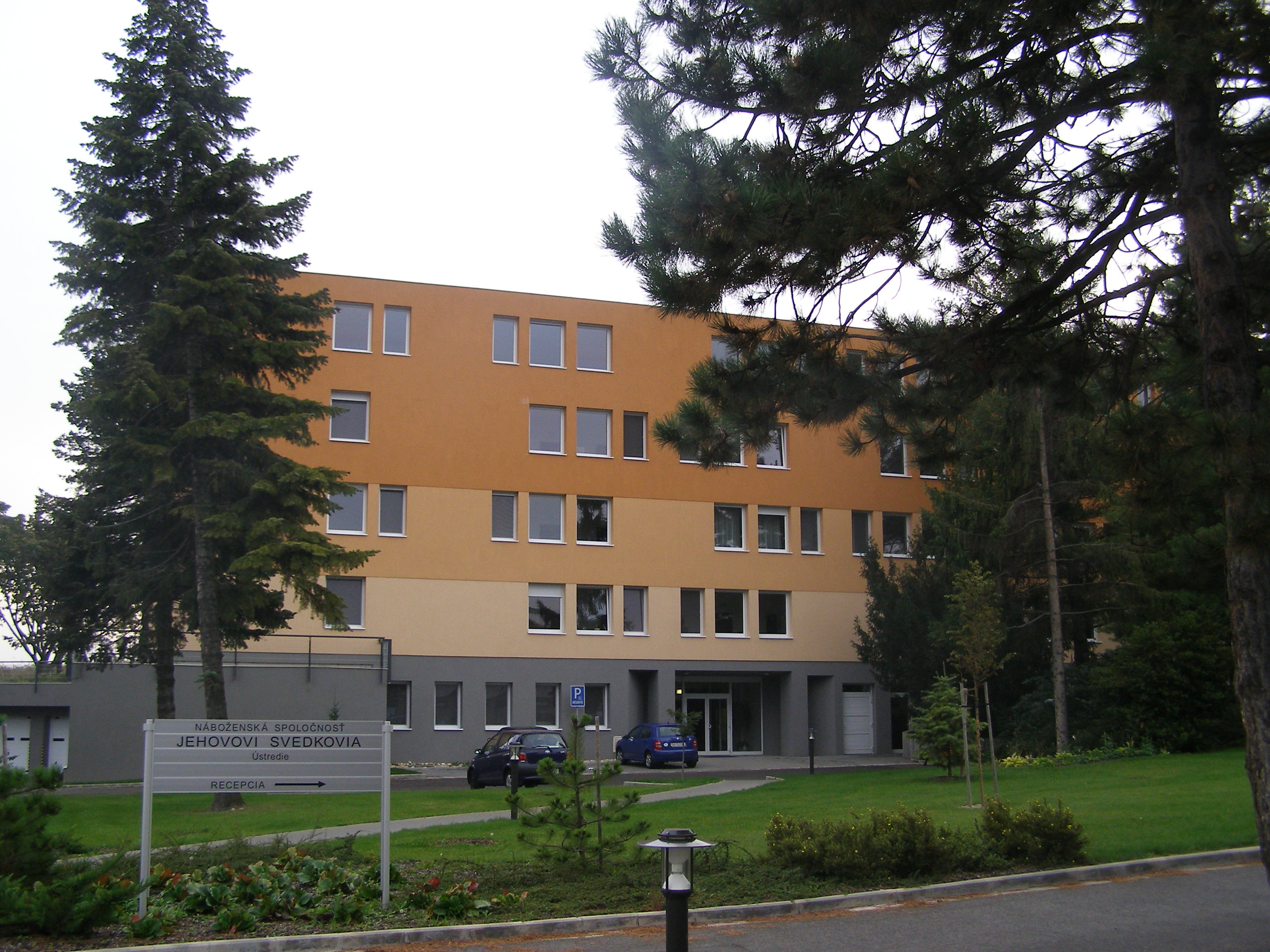 Jehovah's Witnesses House Bratislava